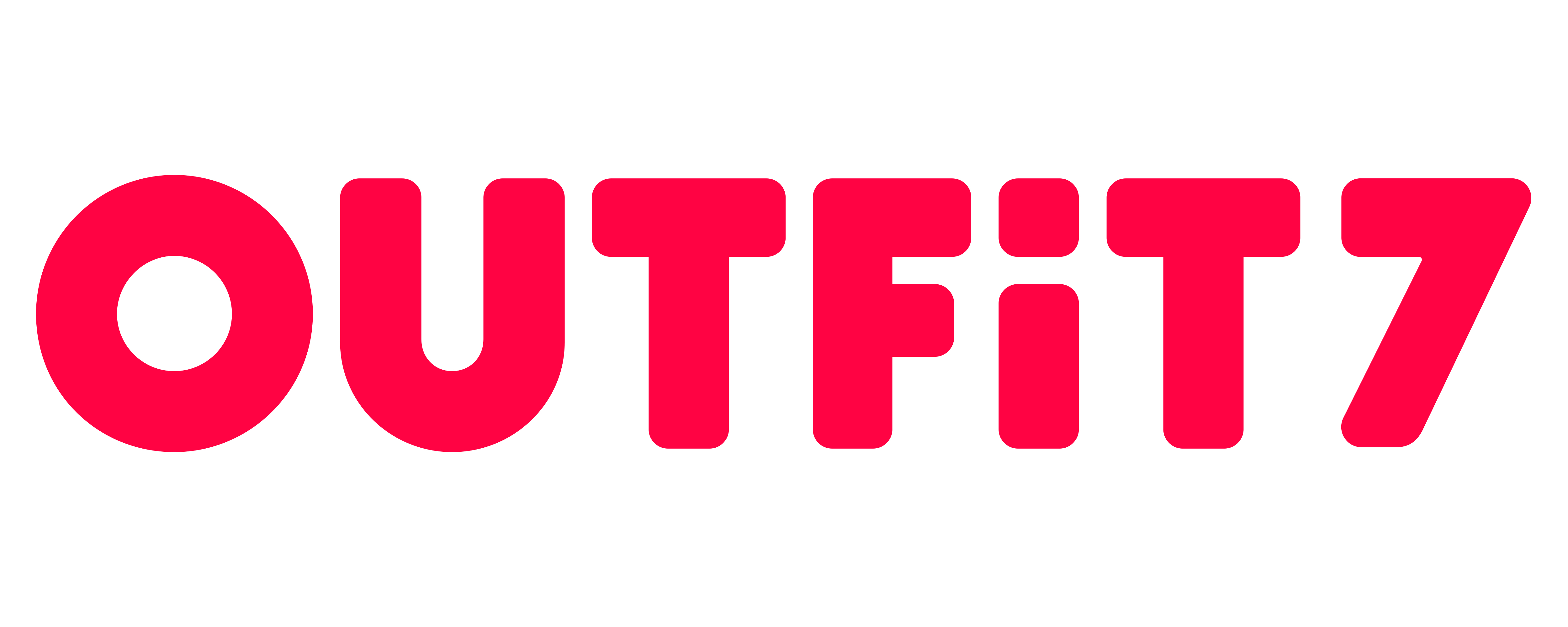 Ouftit7 new logo